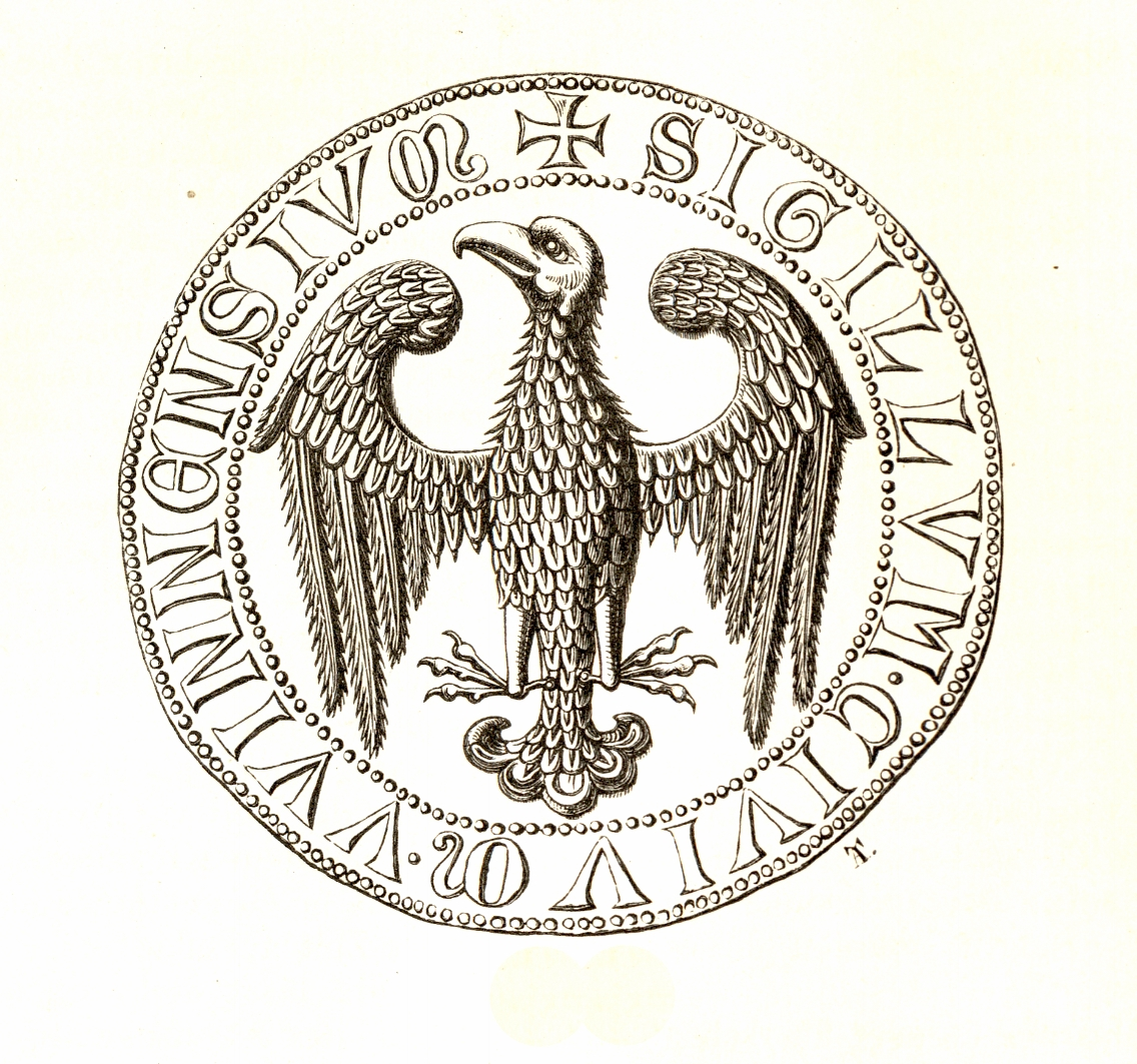 Artikel aus den Mittheilungen der kaiserl. königl. Central-Commission zur Erforschung und Erhaltung der Baudenkmale Band 11, 1866. Alle im PDF-Dokument enthaltenen Bilder stehen in Originalauflösung in derselben Kategorie zur Verfügung. Scanprojekt Bundesdenkmalamt Österreich This scan or this PDF-file was created within the Austrian Wikipedia-project Denkmalpflege Österreich (German only) supported by Wikimedia Germany and Wikimedia Austria as part of the Wikipedia community-project to collect public domain documents from the library of the Heritage Monuments Board of Austria. This document describes or depicts an object which is located in Austria today. Texts are written in German language. Send requests for uncompressed scans to Hubertl. This work is in the public domain in the United States, and those countries with a copyright term of life of the author plus 100 years or less. This file has been identified as being free of known restrictions under copyright law, including all related and neighboring rights.